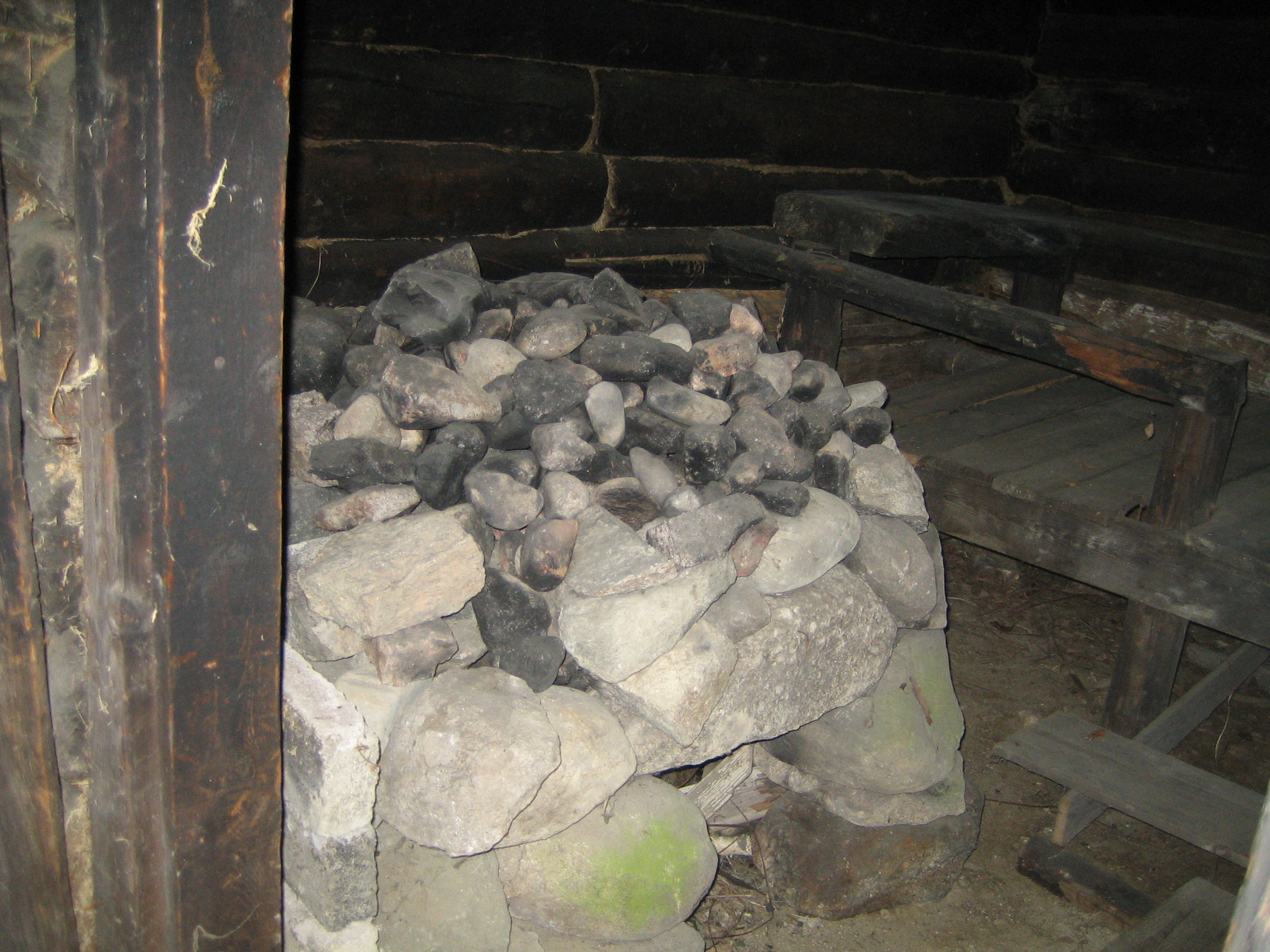 Stonestove in a smoke sauna